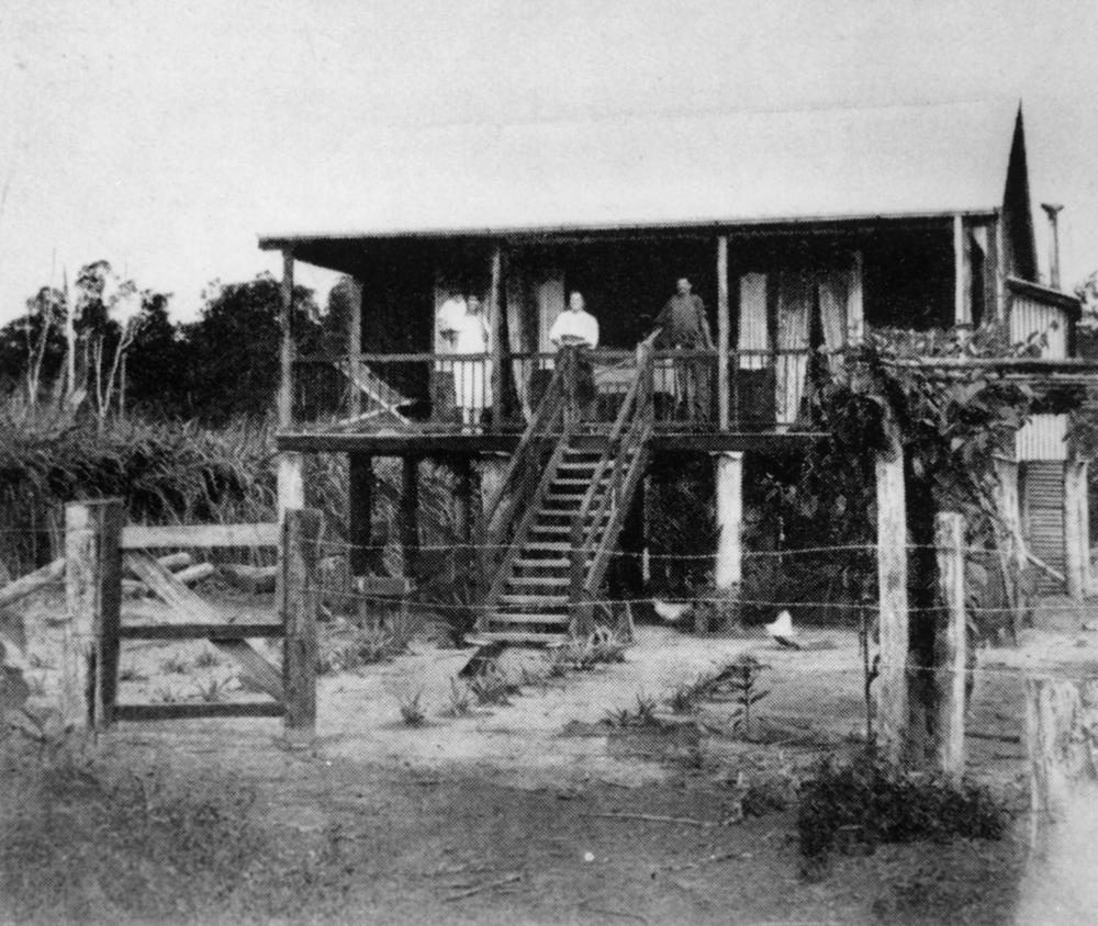 Soldiers settlement home at El Arish. Unidentified occupants on the verandah of a Soldier Settler's house.